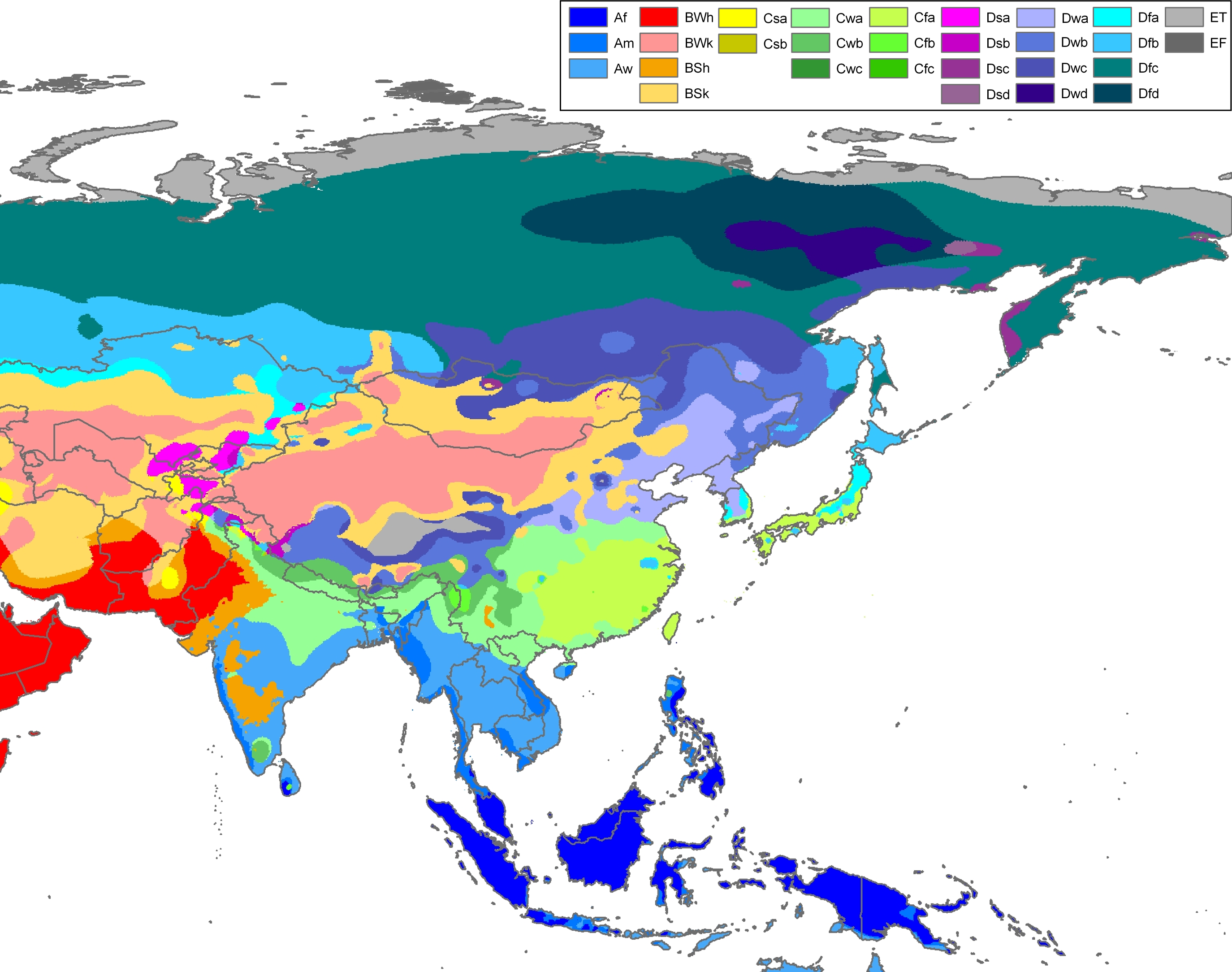 Climate map of Asia, excluding (South)west-Asia (from the "Updated world map of the Köppen-Geiger climate classification").